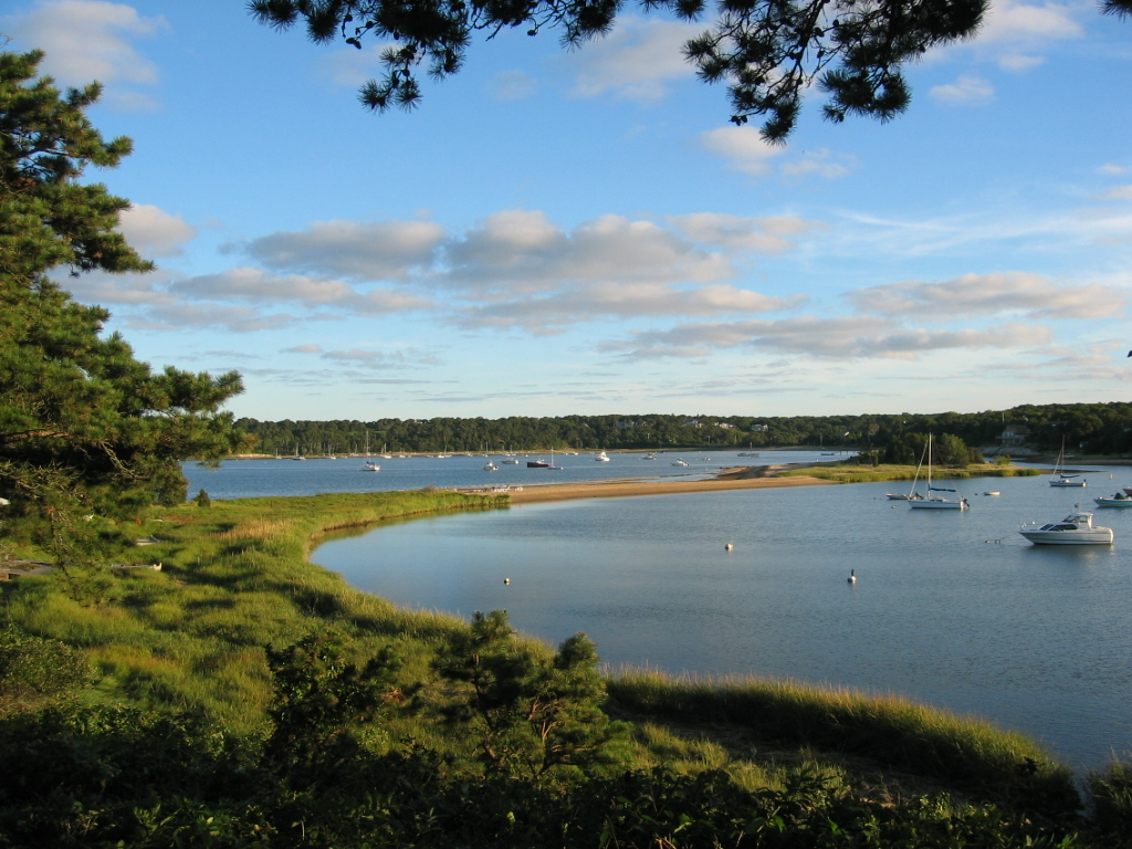 Cape Cod, USA